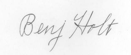 Signature of Benjamin Holt, founder of the Holt Machinery Company, ancestor corporation of Caterpillar Inc.